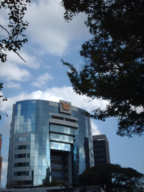 Stanford Bank Tower of Stanford Bank Venezuela, a subsidiary of Stanford Financial Group - Caracas, Venezuela